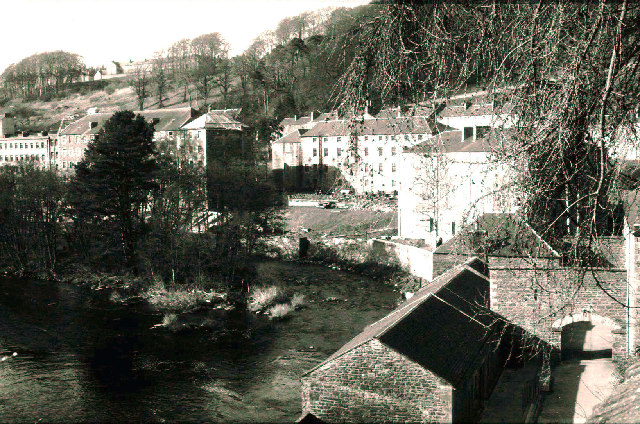 New Lanark. A social milestone founded in 1784 by the philanthropist Richard Owen, consisting of a textile mill driven by water and a complete settlement with workers' dwellings, school and other services. It was socially far ahead of its time and comparable to the Quarry Bank Mill(NT) in Styal, Cheshire founded by Samuel Greg also in 1784.